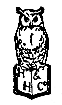 Logo of Henry Holt and Company, as it appeared in the book The Earliest Lives of Dante, translated by James Robinson Smith.